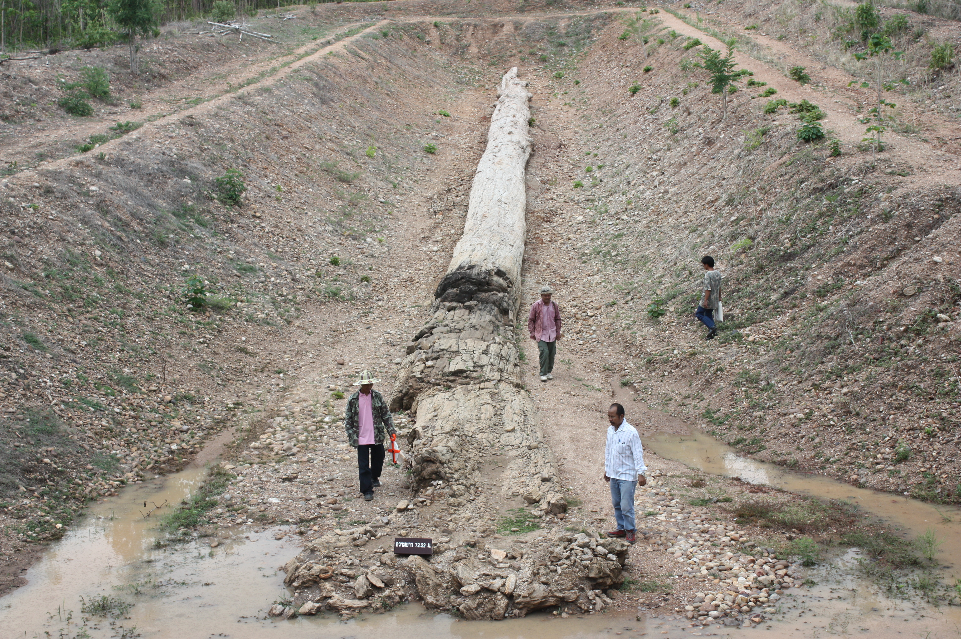 One of seven fossil wood site in the Bantak Petrified Forest Park in Bantak area, Tak province, northern Thailand.